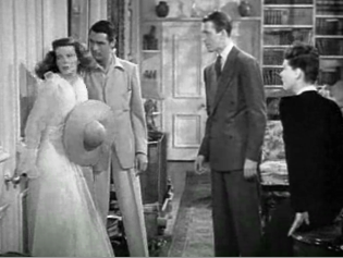 Cropped screenshot of the film The Philadelphia Story